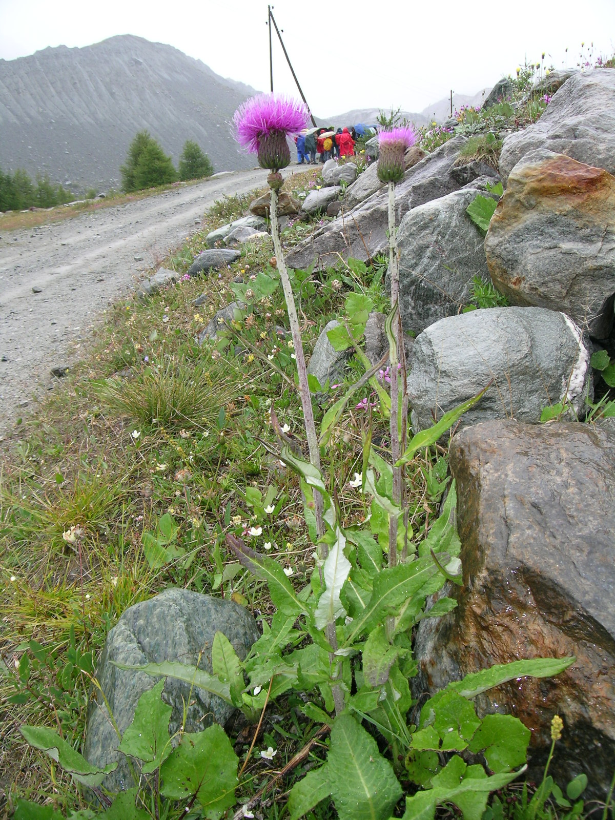 Cirsium helenioides Zermatt, Findelen (Kanton Wallis, Switzerland), 2300 m Author: Roland Teuscher – own photograph Date: 3.08.06